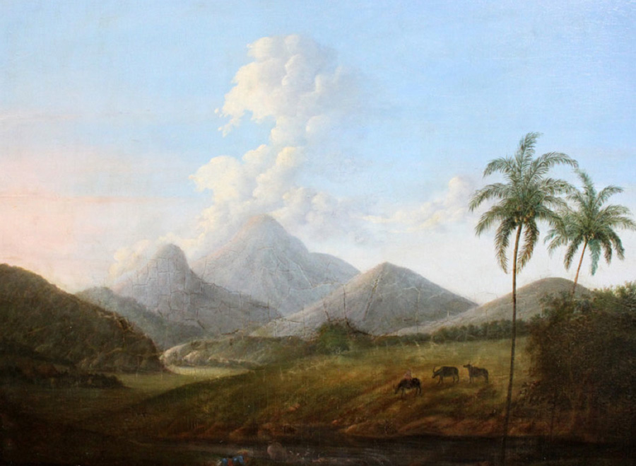 Landschap bij Soekaboemi, Java, by Christoffel Steitz de Wilde